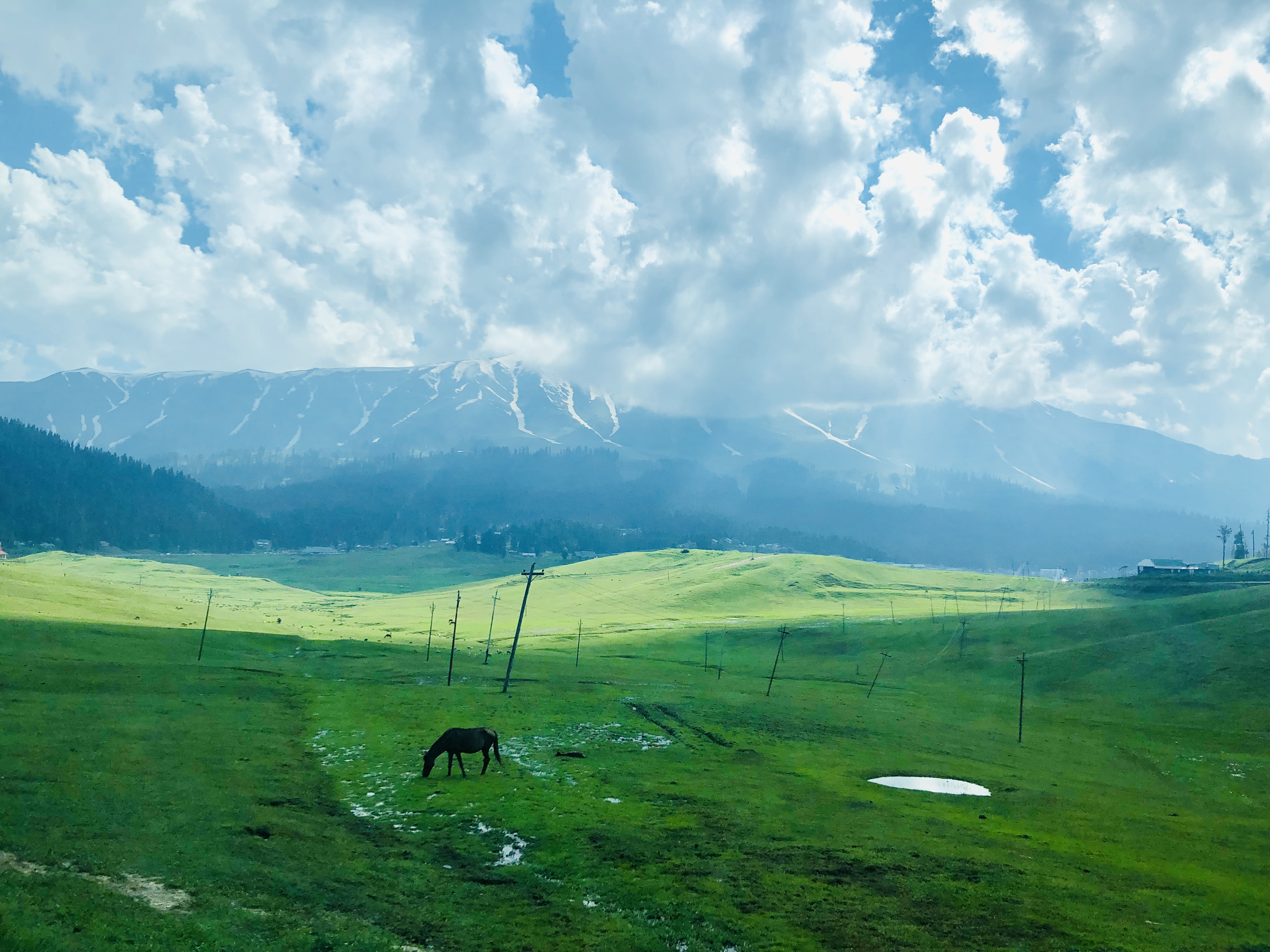 Originally called Gauri Marg (गौरी मार्ग) meaning (the path of Devi Gauri) it was renamed to Gulmarg ("meadow of flowers") by Sultan Yusuf Shah of the Chak Dynasty who frequented the place with his queen Habba khatoon in the 16th century.Location: Jammu and KashmirEvent type: TourDate or year: 2019